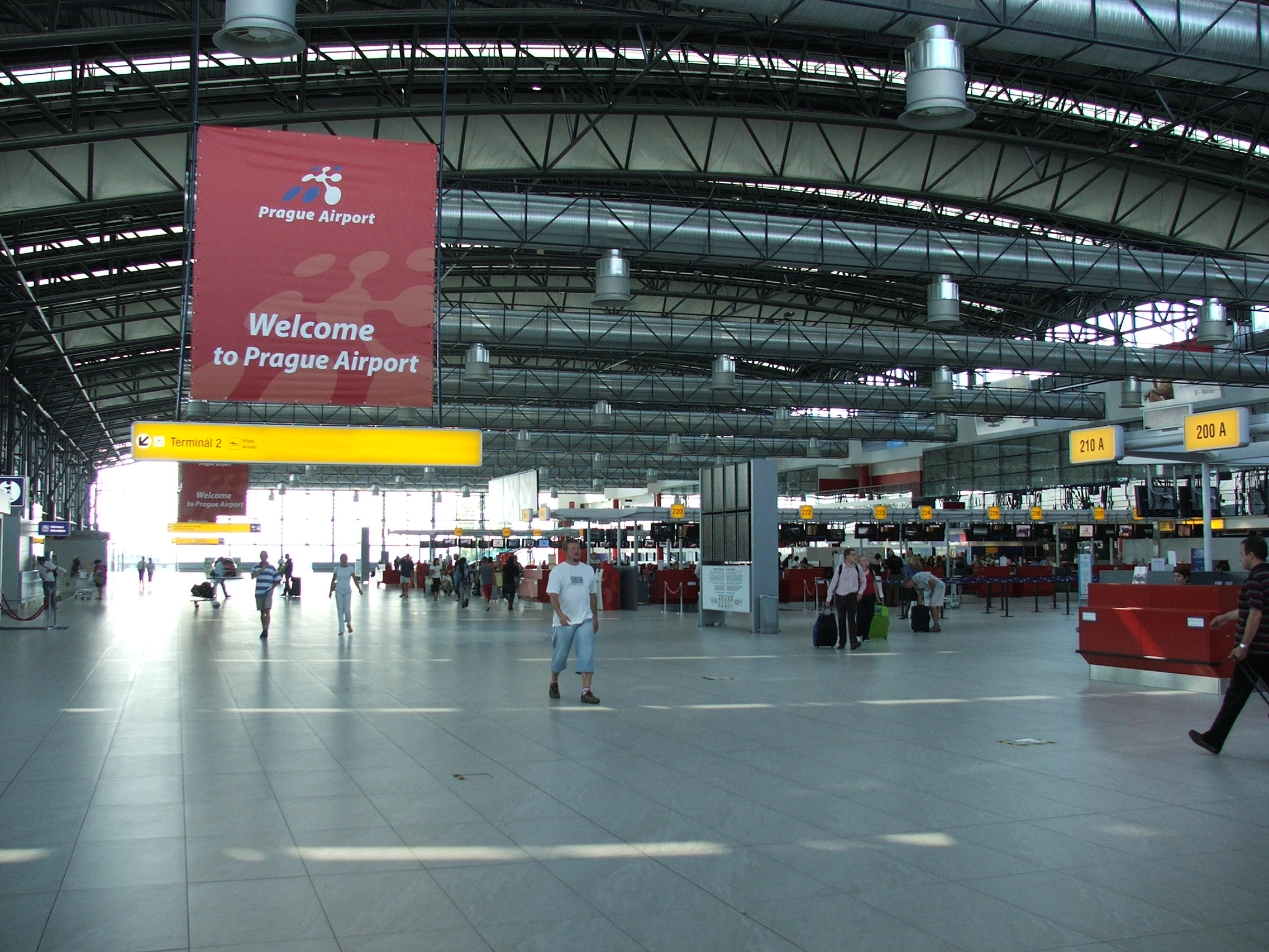 Terminal 2 Departure Hall in summer 2006, Prague Intl. Airport Ruzyně, Czechia.